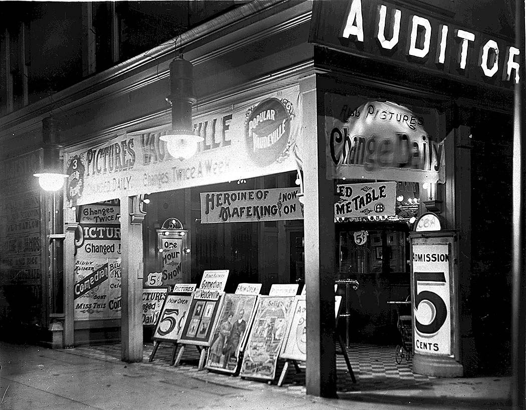 Auditorium Theatre at 382 Queen Street West. It was opened as the Auditorium in 1908, was renamed the Avenue Theatre in 1913, and was renamed again in 1915 as the Mary Pickford Theatre. This photo likely dates from early 1910 as the film advertised, The Heroine of Mafeking, was released December 11, 1909. (Toronto, Canada)